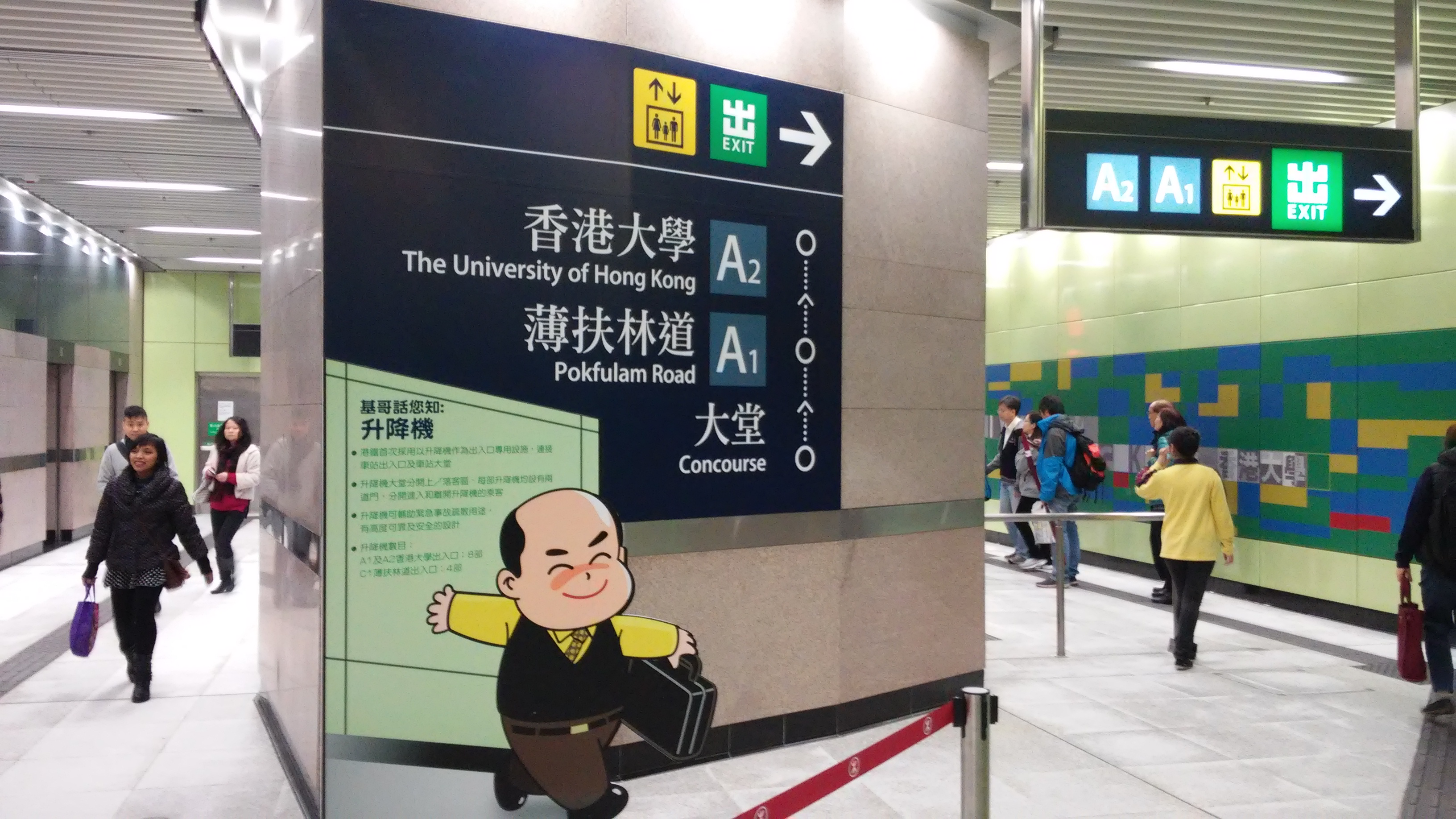 Visitors in HKU MTR Station interior A1 tunnel in Dec-2014